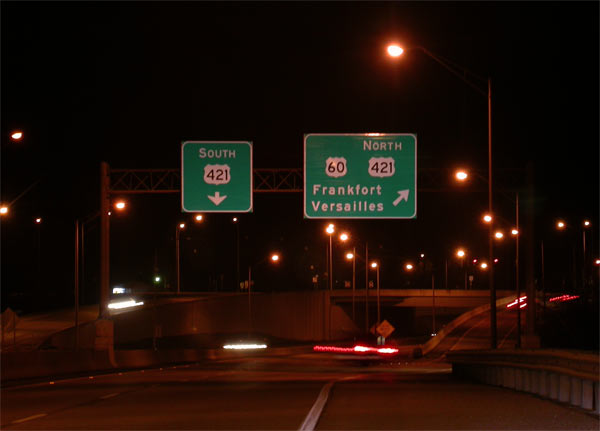 Eastbound terminus view at the US 60 SPUI interchange. The road continues as US 460.